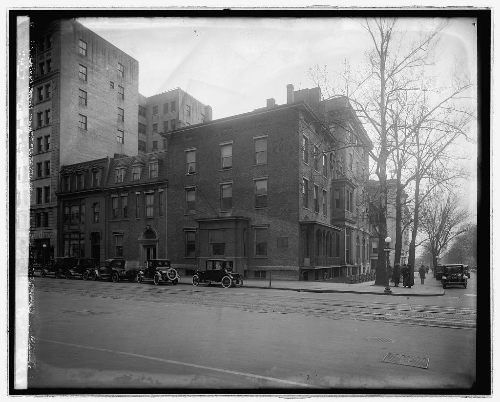 Exterior view of the Cosmos Club, Washington, D.C., prior to its move to the Townsend house. Black and white photographic image from 1921-1922. 8 in. x 10 in. glass negative. Unknown photographer employed by the National Photo Company. Image courtesy of the Prints and Photographs Division, Library of Congress, Washington, D.C.